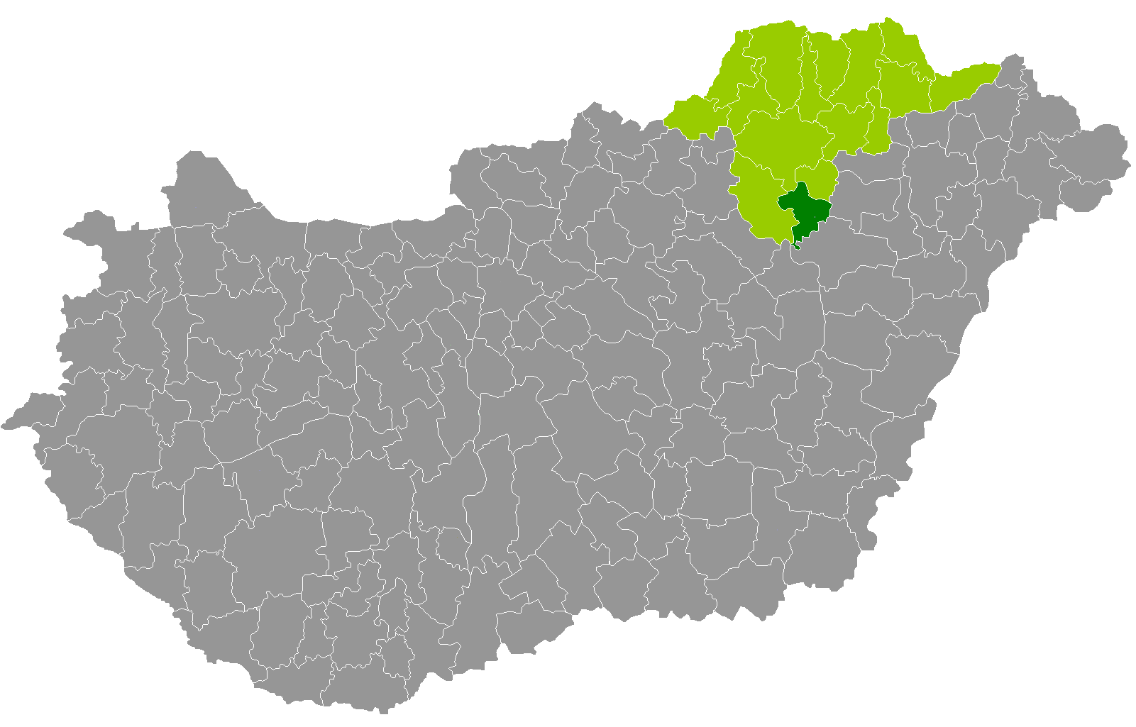 Location of Mezőcsát District, Borsod-Abaúj-Zemplén, Hungary